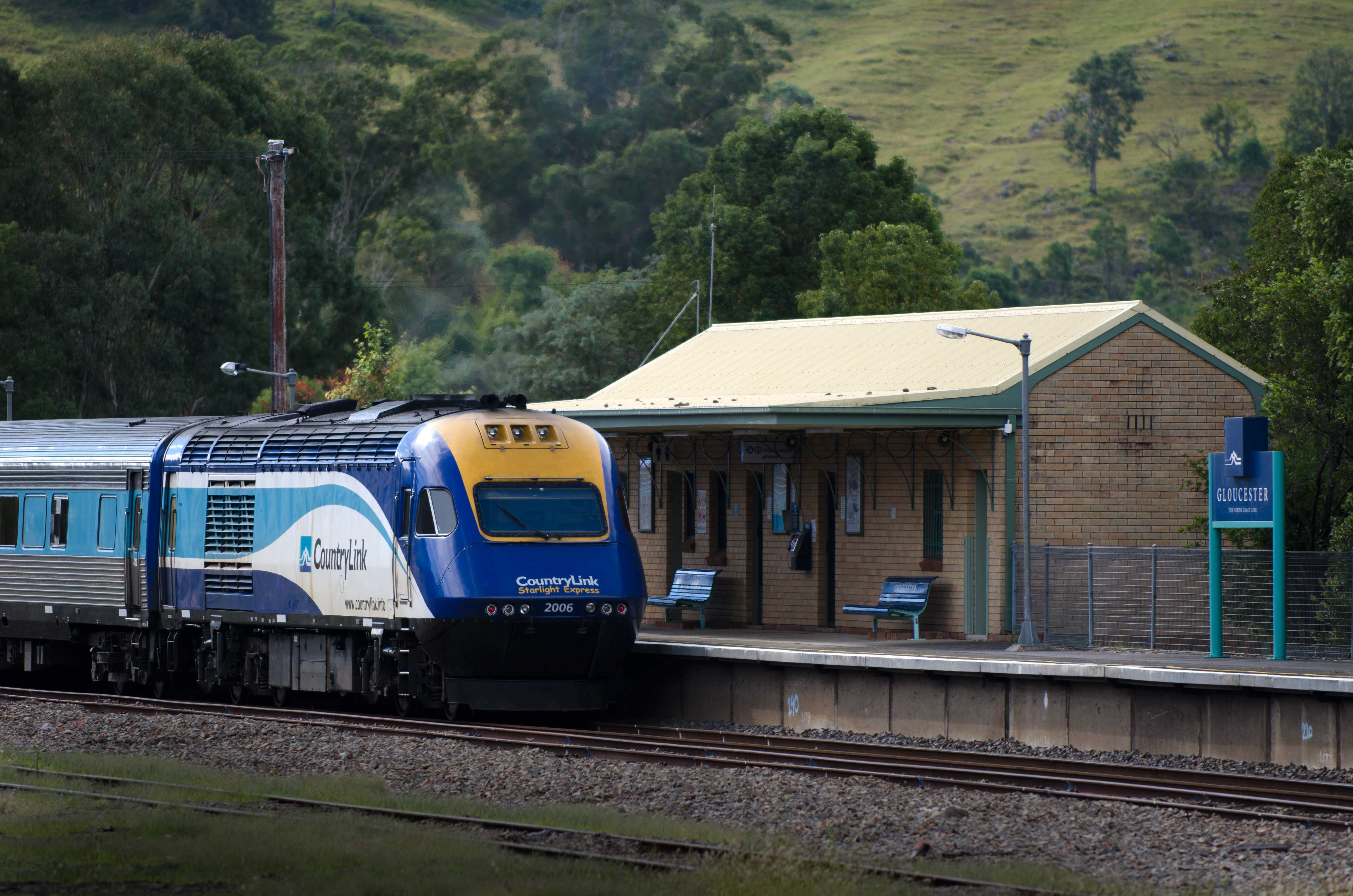 XPT at Gloucester, New South Wales